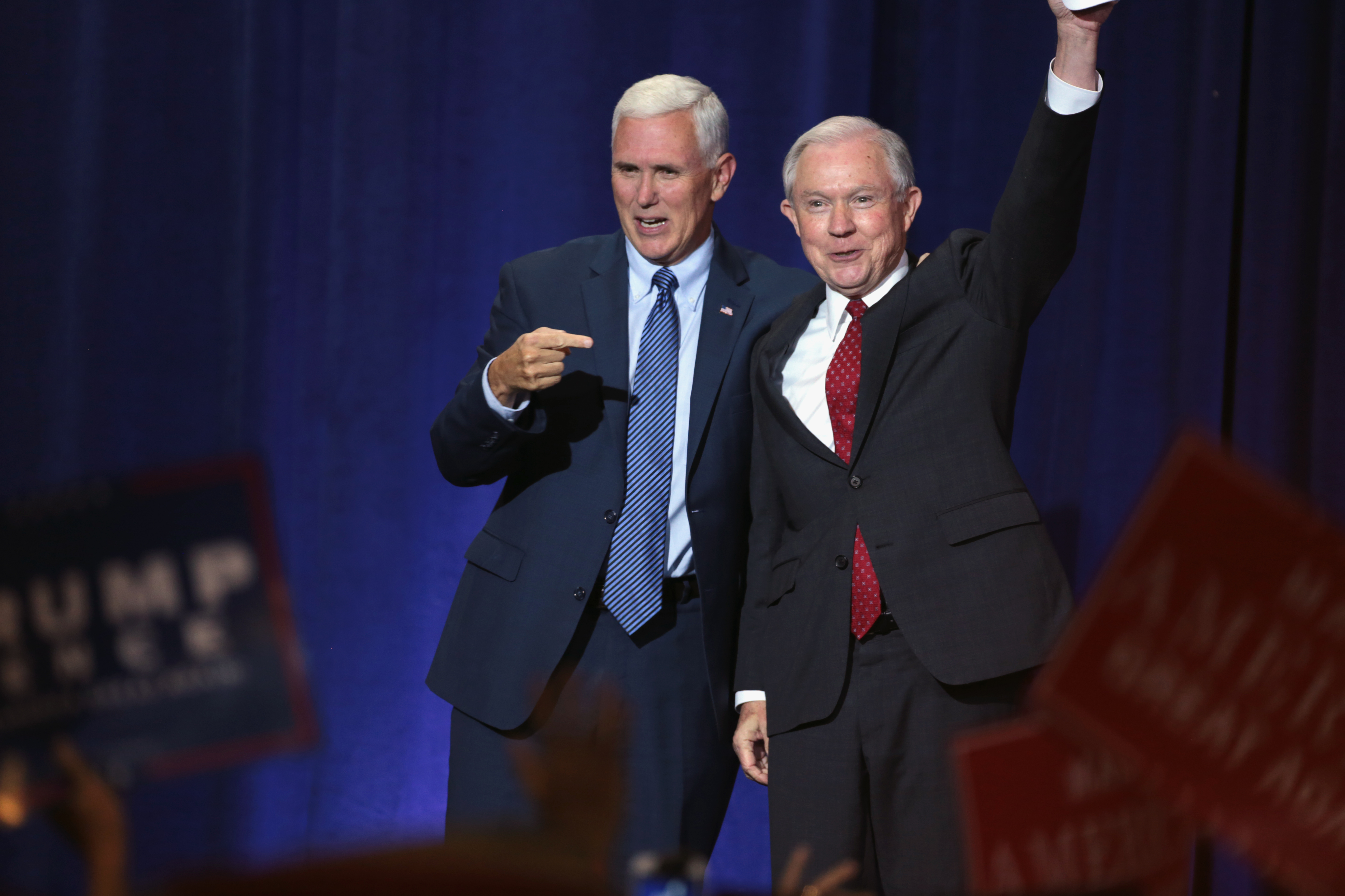 Governor Mike Pence of Indiana and U.S. Senator Jeff Sessions of Alabama speaking to supporters at an immigration policy speech hosted by Donald Trump at the Phoenix Convention Center in Phoenix, Arizona.